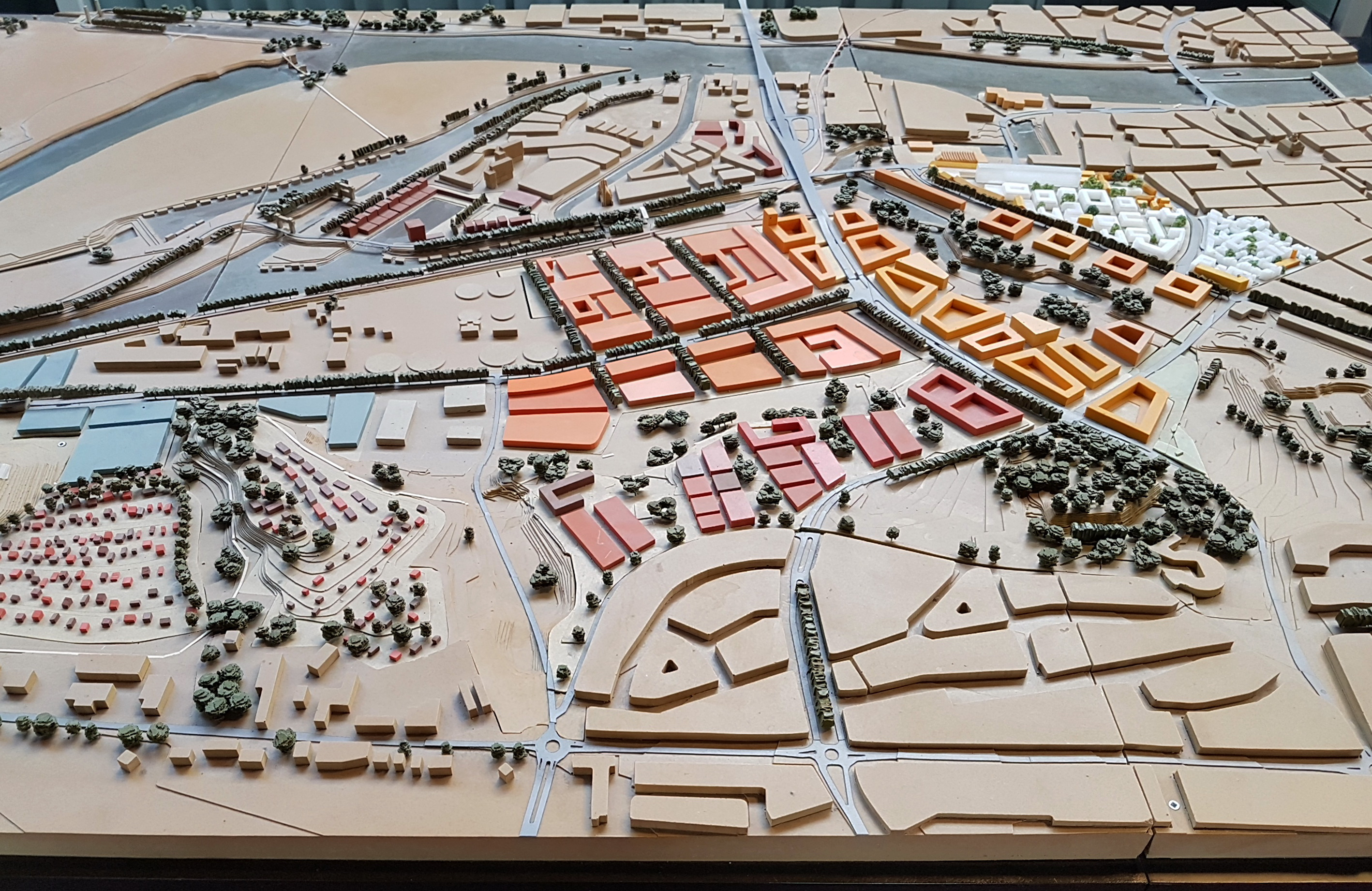 Urban planning model of the Belvédère area in Maastricht, Netherlands. The reconstruction of the Noorderbrug sliproads has been carried out. Most of the housing schemes have become uncertain due the the 2010 crisis and diminished population growth. Photographed in Info Centre Belvédère, based in the former Royal Sphinx showroom.